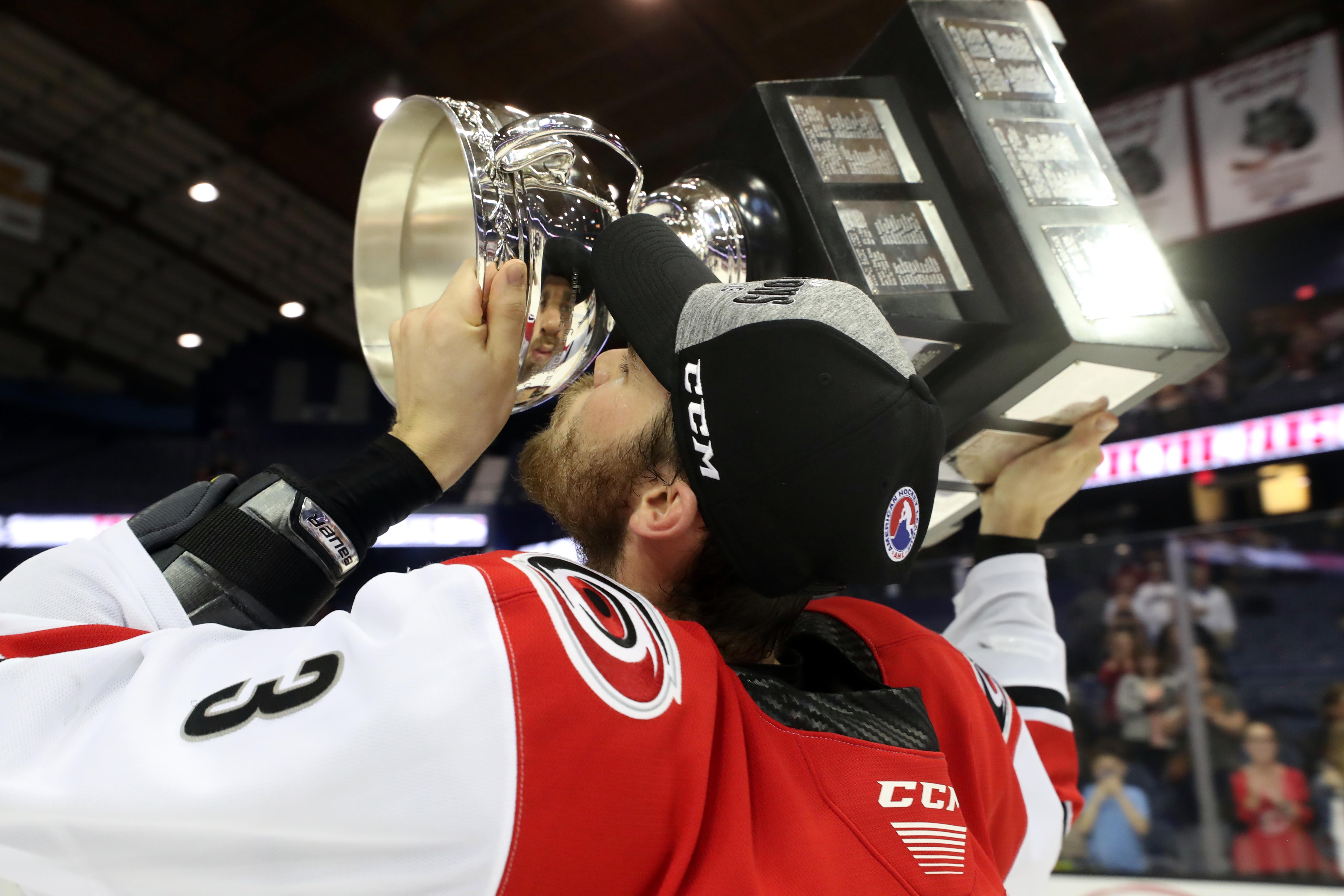 Photo: Gregg Forwerck/AHL